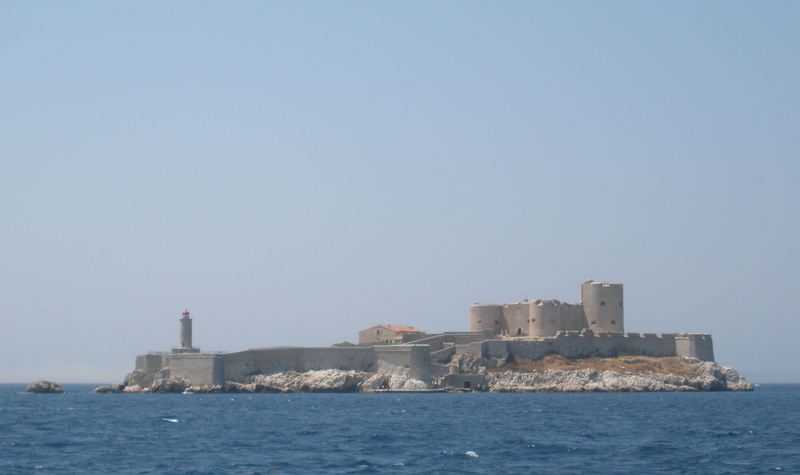 The If Castle today.